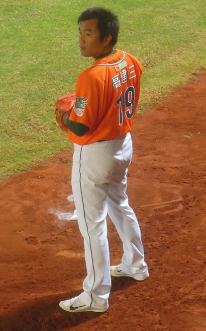 Chieh-San Kao at a baseball game of Tainan of Taiwan in October 3, 2013.